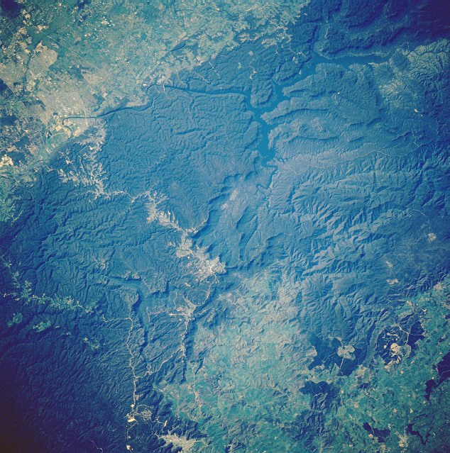 Lake Burragorang, New South Wales, Australia - November 1985. As in STS61A-50-080, the dark blue, irregular-shaped Lake Burragorang, as well as the Wollondilly and Coxs River Valleys can be discerned within the darker, densely vegetated mountains of the Great Dividing Range west of Sydney. The lighter colored areas in the upper left corner of the image are the western suburbs of Sydney and the, crooked, lighter-colored corridor through the forested mountains leads to the interior cities of Katooma and Blackheath (near the center of the picture) and beyond. The lighter green area appears to be a fairly extensive alpine meadow within the Great Dividing Range. Another highway is visible in a valley north of the larger developing corridor as it snakes its way through the mountains (lower left).